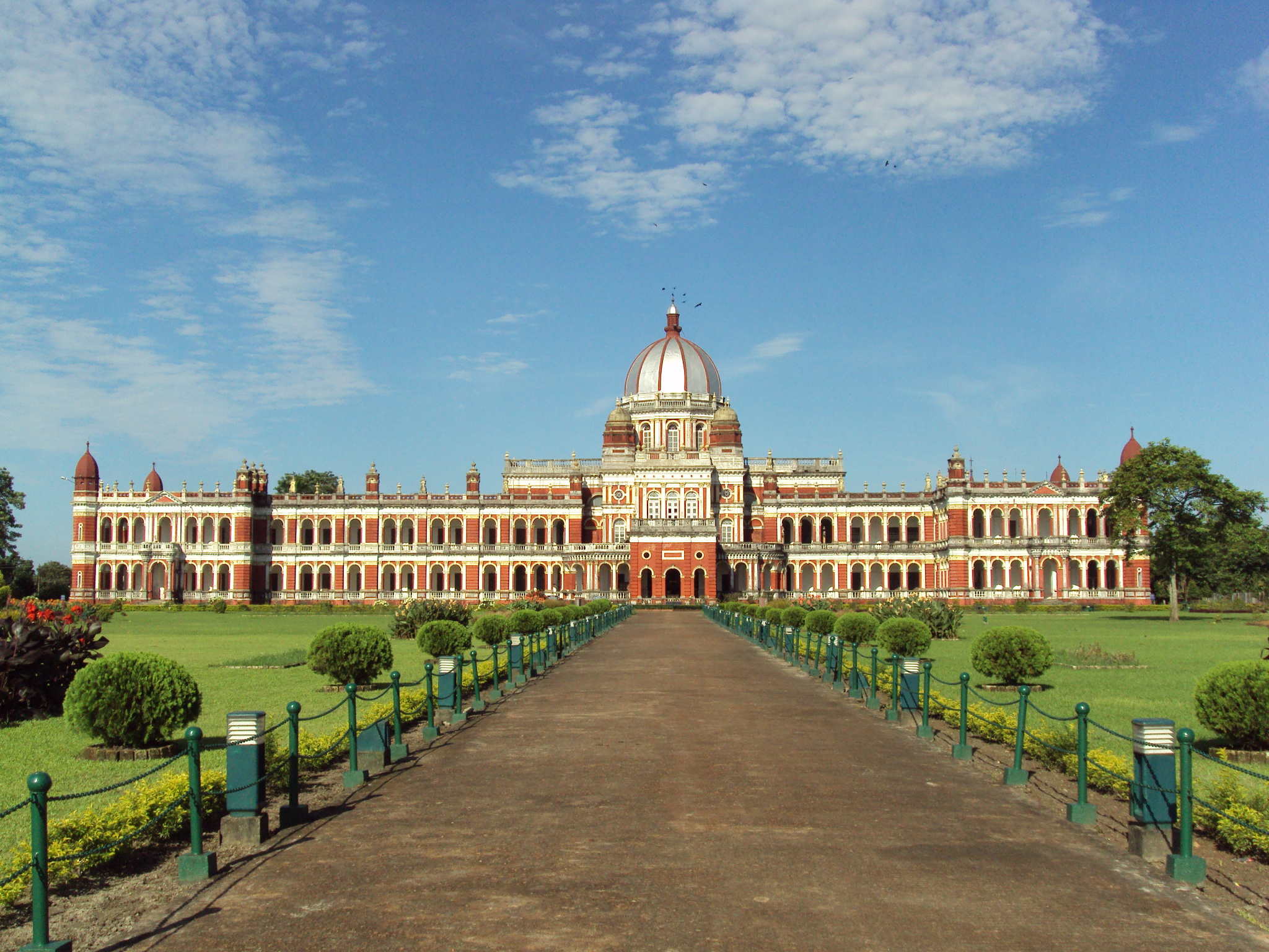 Cooch Behar Palace built in 1887, during the reign of Maharaja Nripendra Narayan of Cooch Behar State.